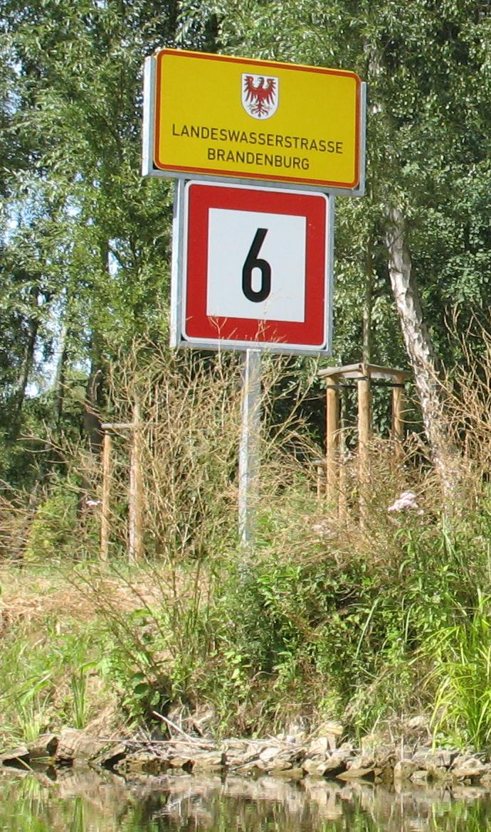 Bank of River Havel in Zehdenick in Brandenburg, Germany